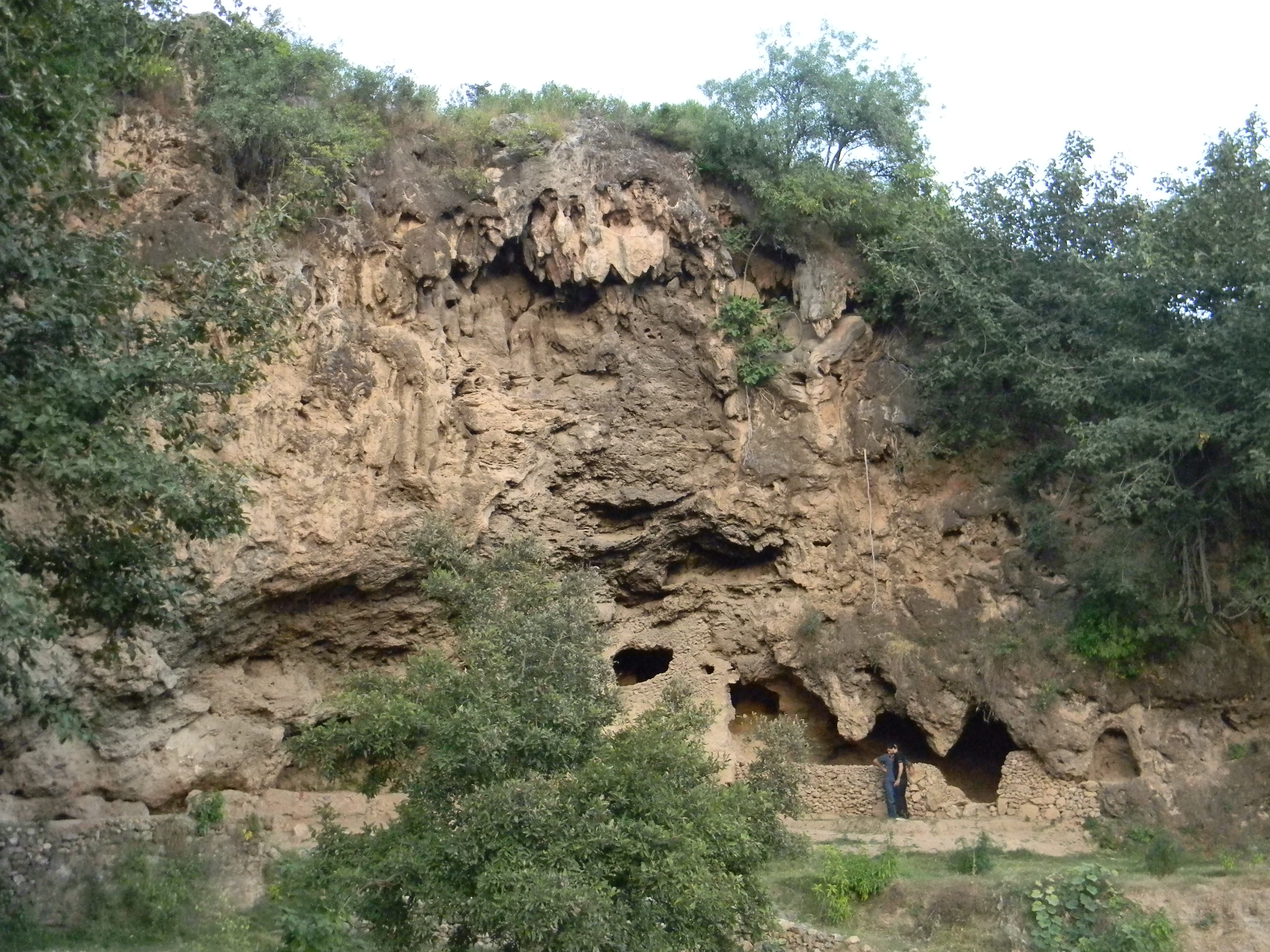 Sadhu da Bagh is an archeological site in Islamabad.